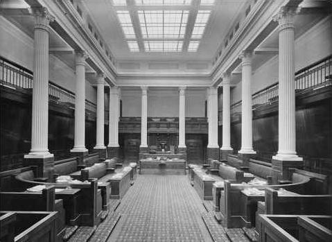 Interior of the new South Australian Legislative Council circa 1939.